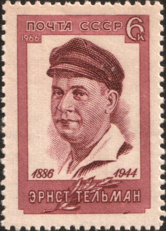 USSR stamp, E. Thalmann, 1966, 6 k.